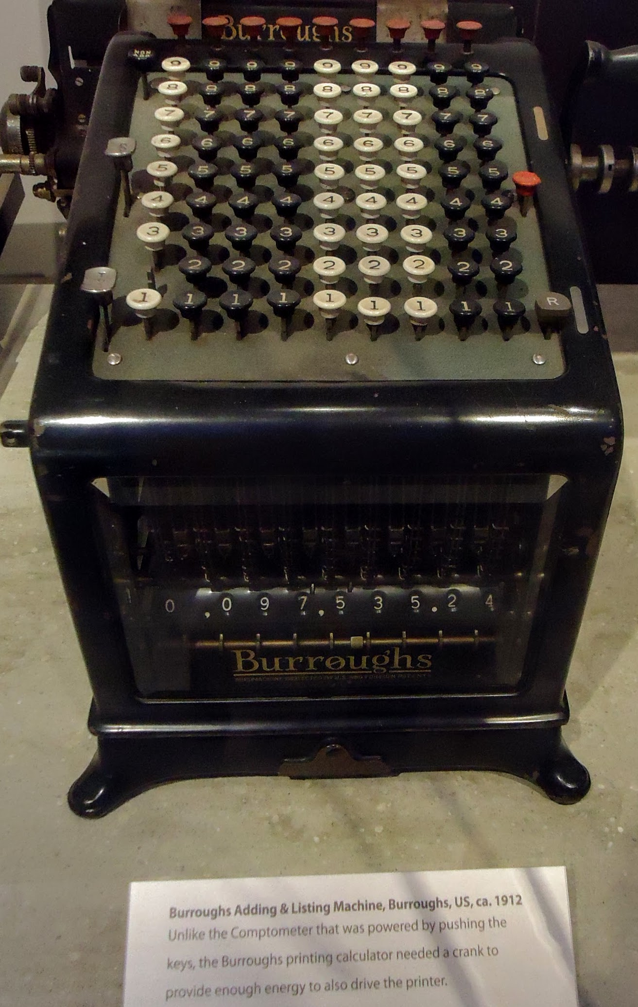 Burroughs Adding and Listing machine 1912 at The Computer History Museum, a museum established in 1996 in Mountain View, California, USA, dedicated to preserving and presenting the stories and artifacts of the information age, and exploring the computing revolution and its impact on society.